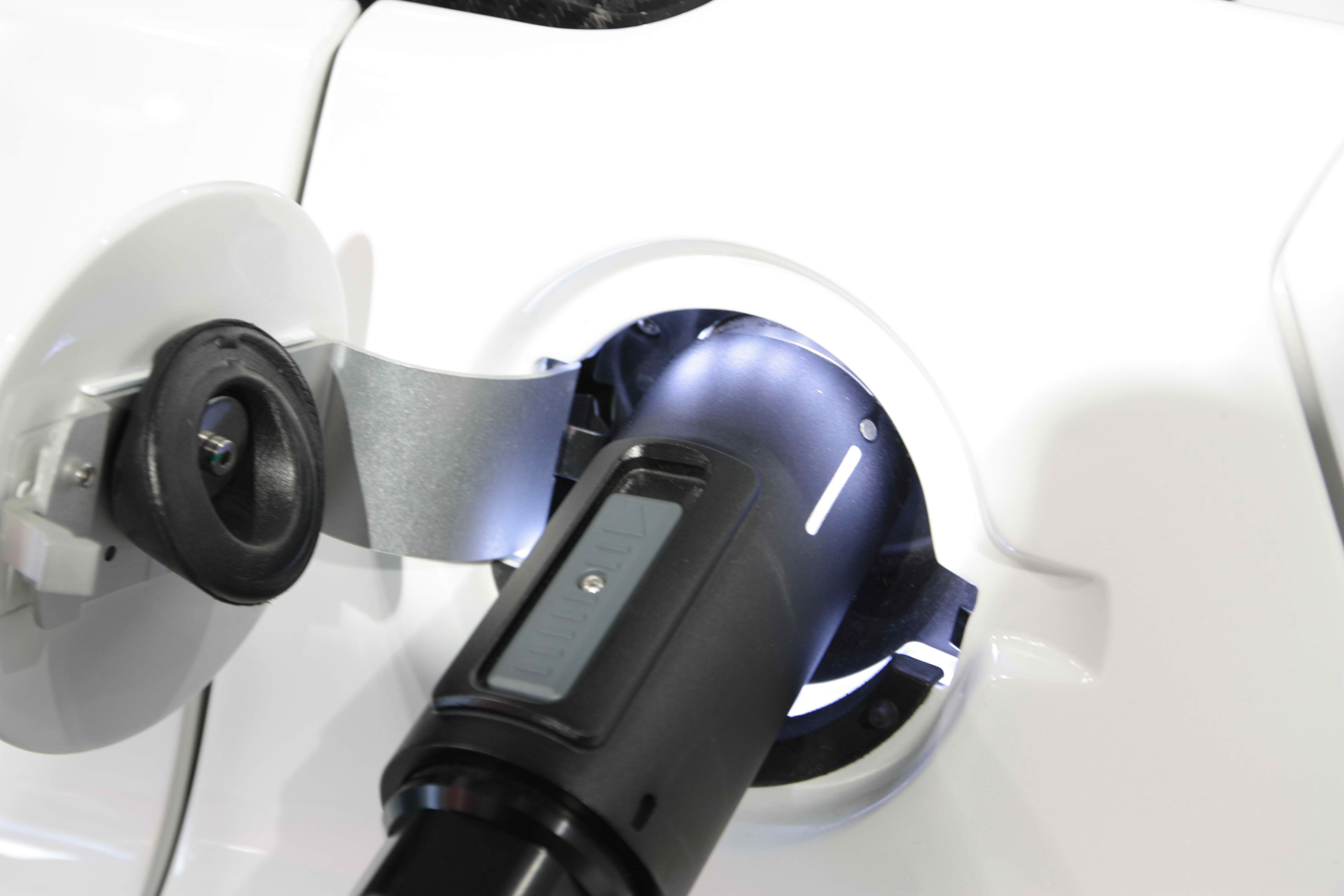 A Tesla Roadster Sport being charged up in Japan.